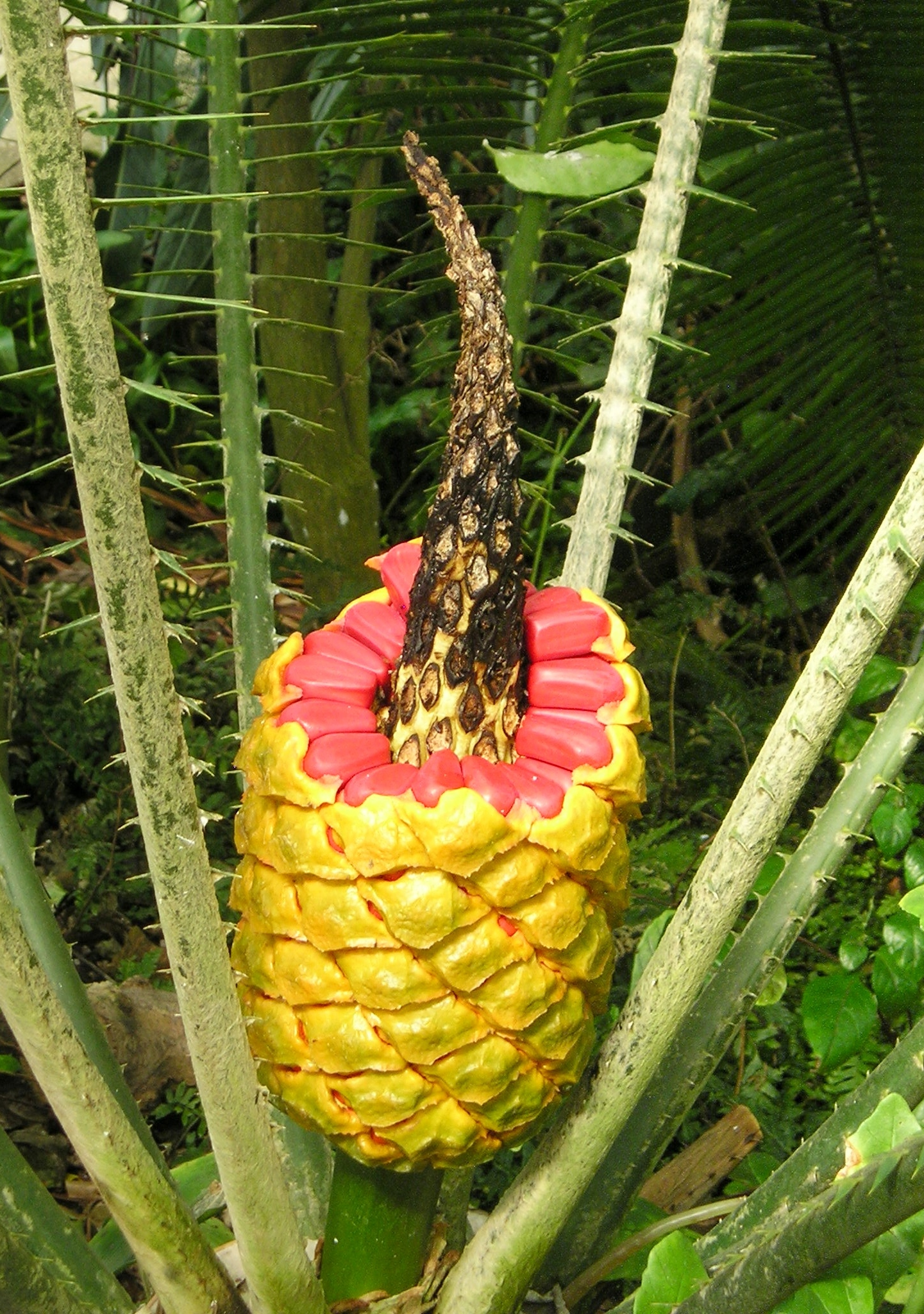 Encephalartos villosus Botanischer Garten TU Dresden, April 2009 Creative Commons Licence BY 2.0 Quellenangabe / Credit: Photo by Maja Dumat